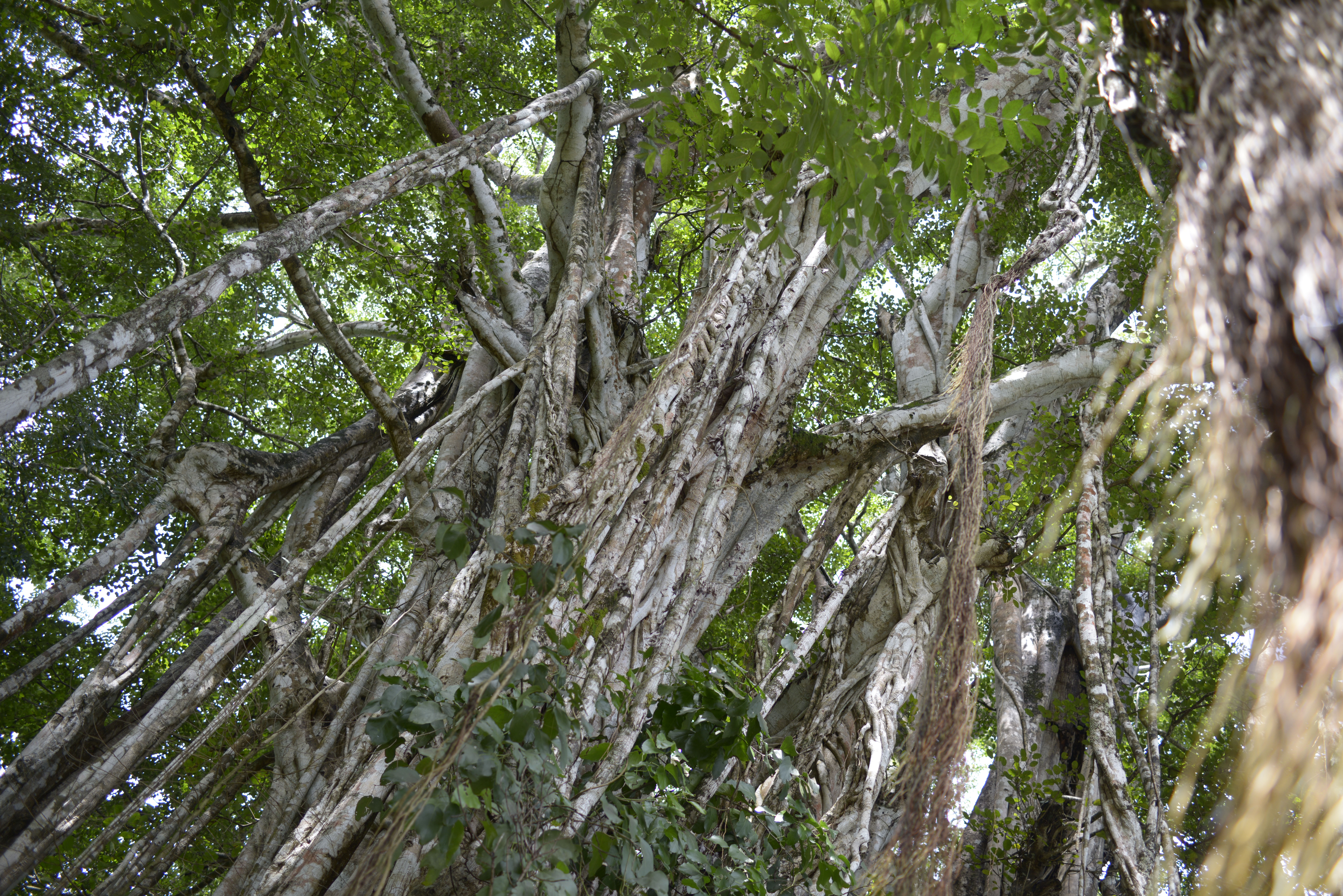 "El Higueron de Cabuya" (Ficus cotinifolia) could be the largest tree in Costa Rica.